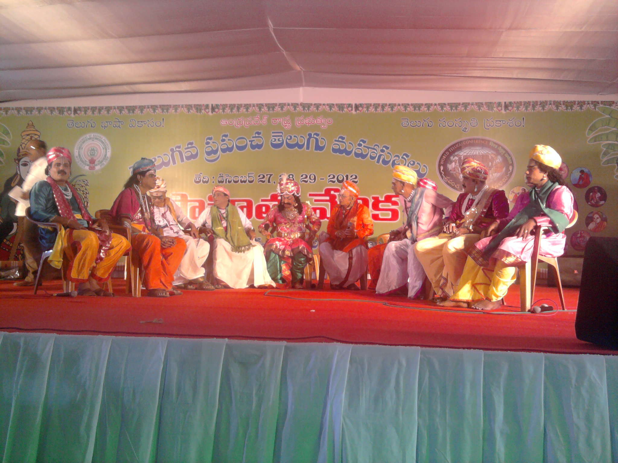 Bhuvana Vijayam at fourth World Telugu Conference